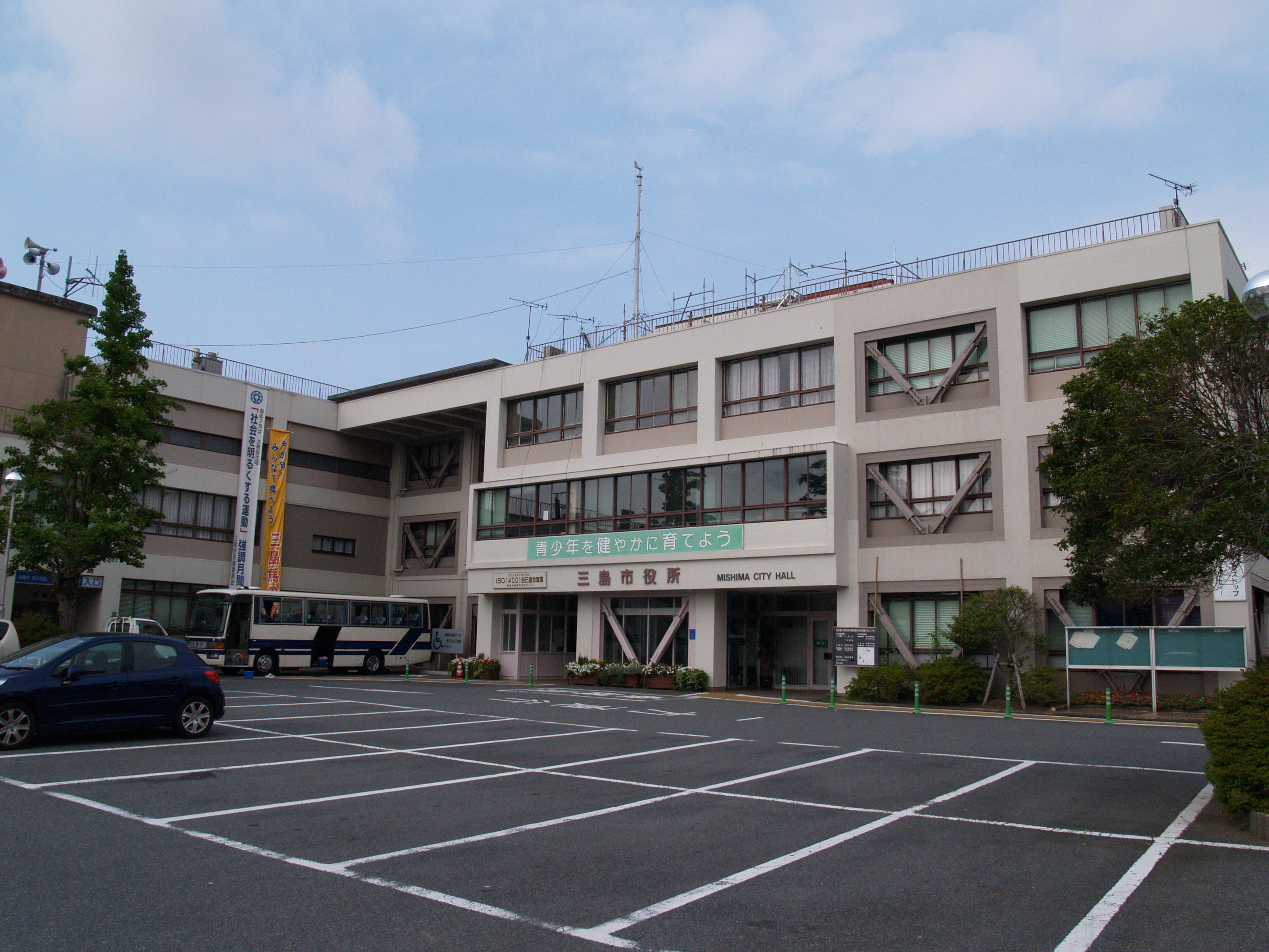 Mishima city office